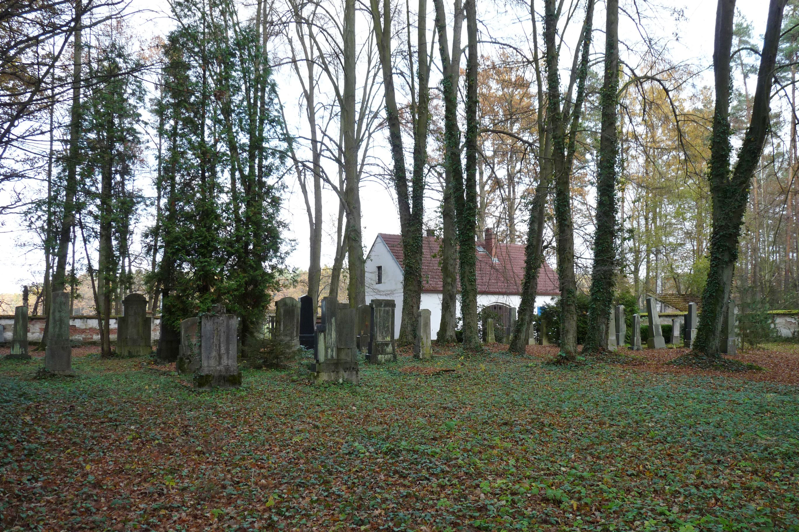 Jewish cemetery by the town of Třeboň, Jindřichův Hradec District, South Bohemian Region, Czech Republic.